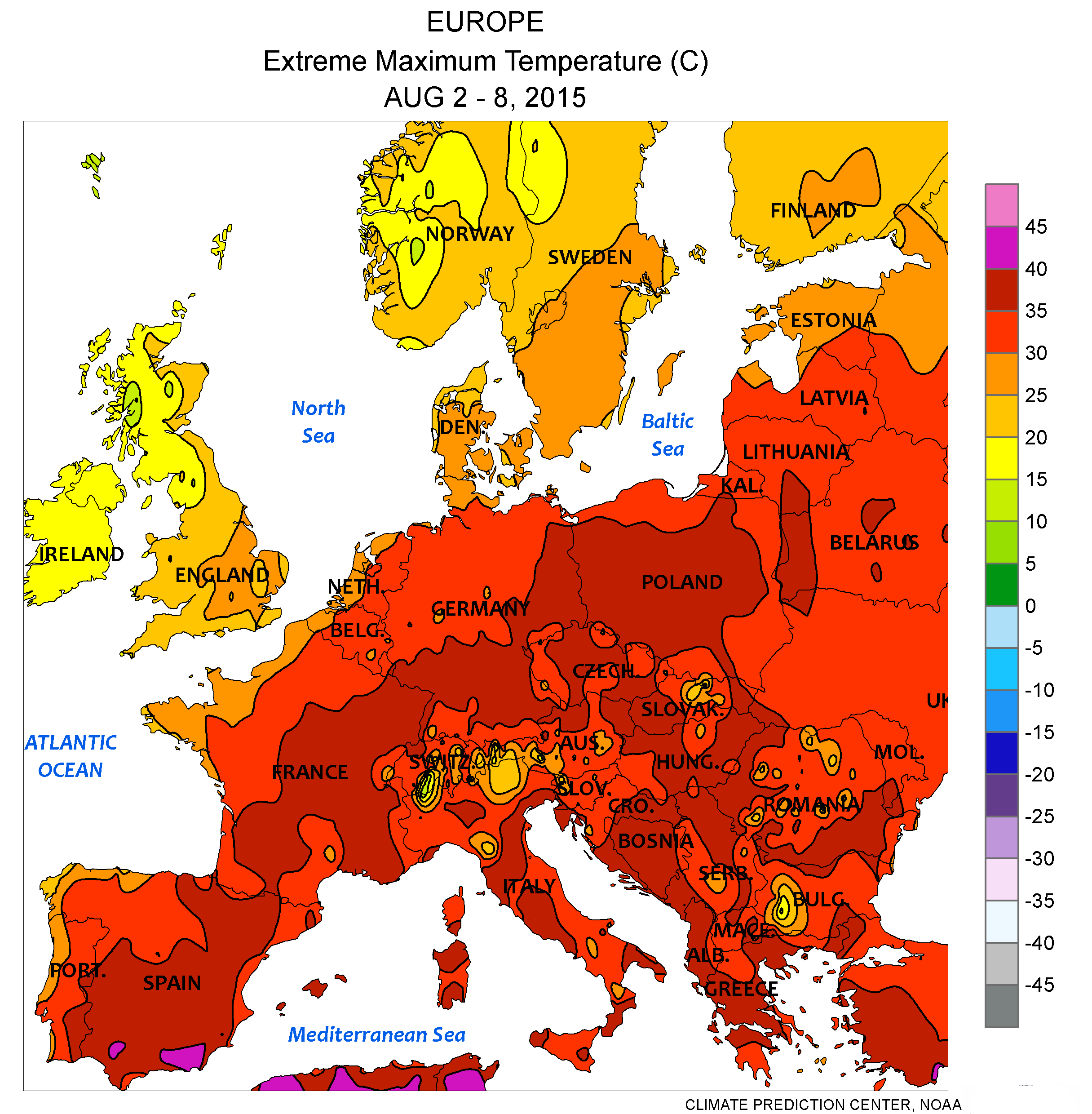 Europe: Extreme maximum temperature August 2 - 8, 2015, computer generated colours, based on preliminary data